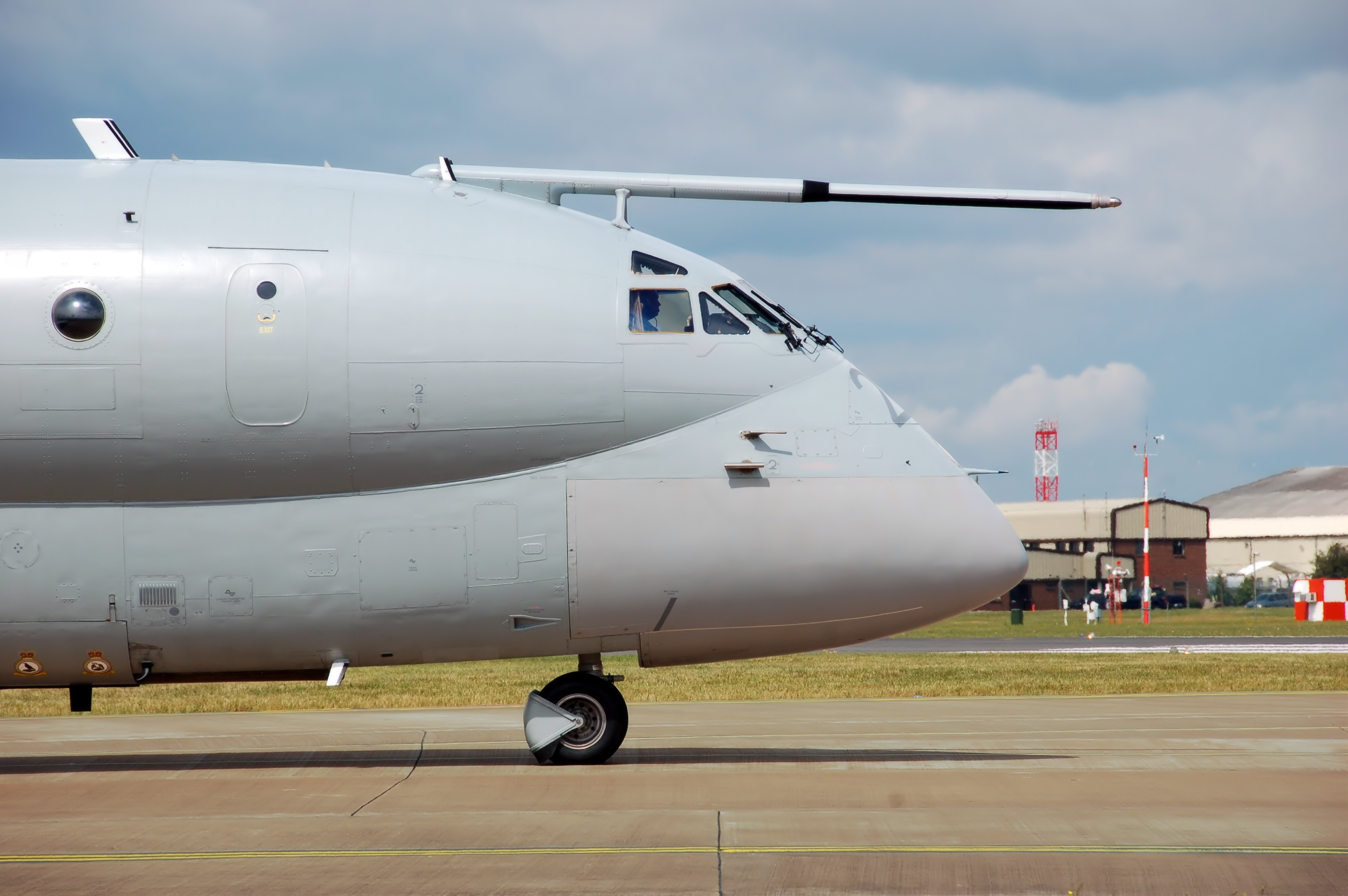 RAF Hawker Siddeley Nimrod MR2 (code XV226) taxis for takeoff at the 2009 Royal International Air Tattoo, Fairford, Gloucestershire, England.